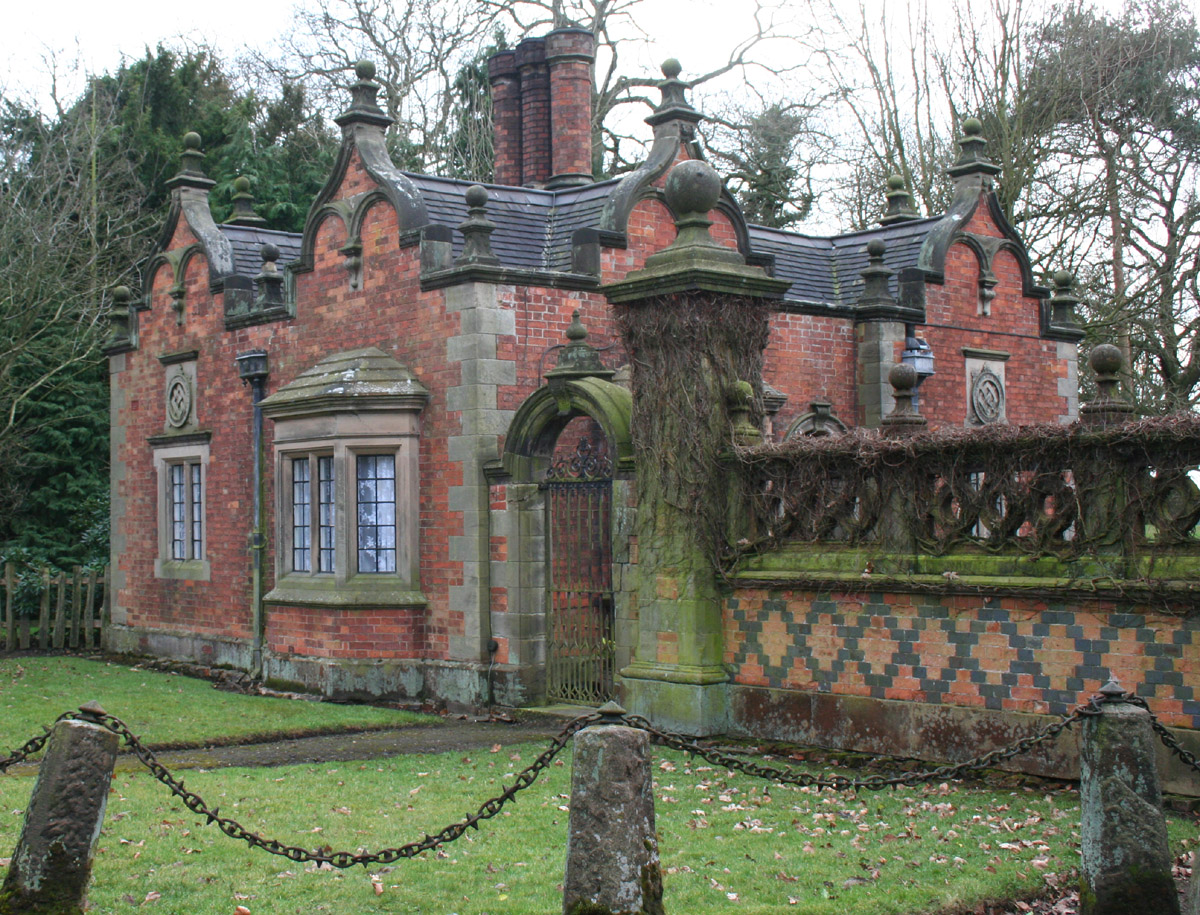 Dorfold Hall gatelodge, Acton, Cheshire